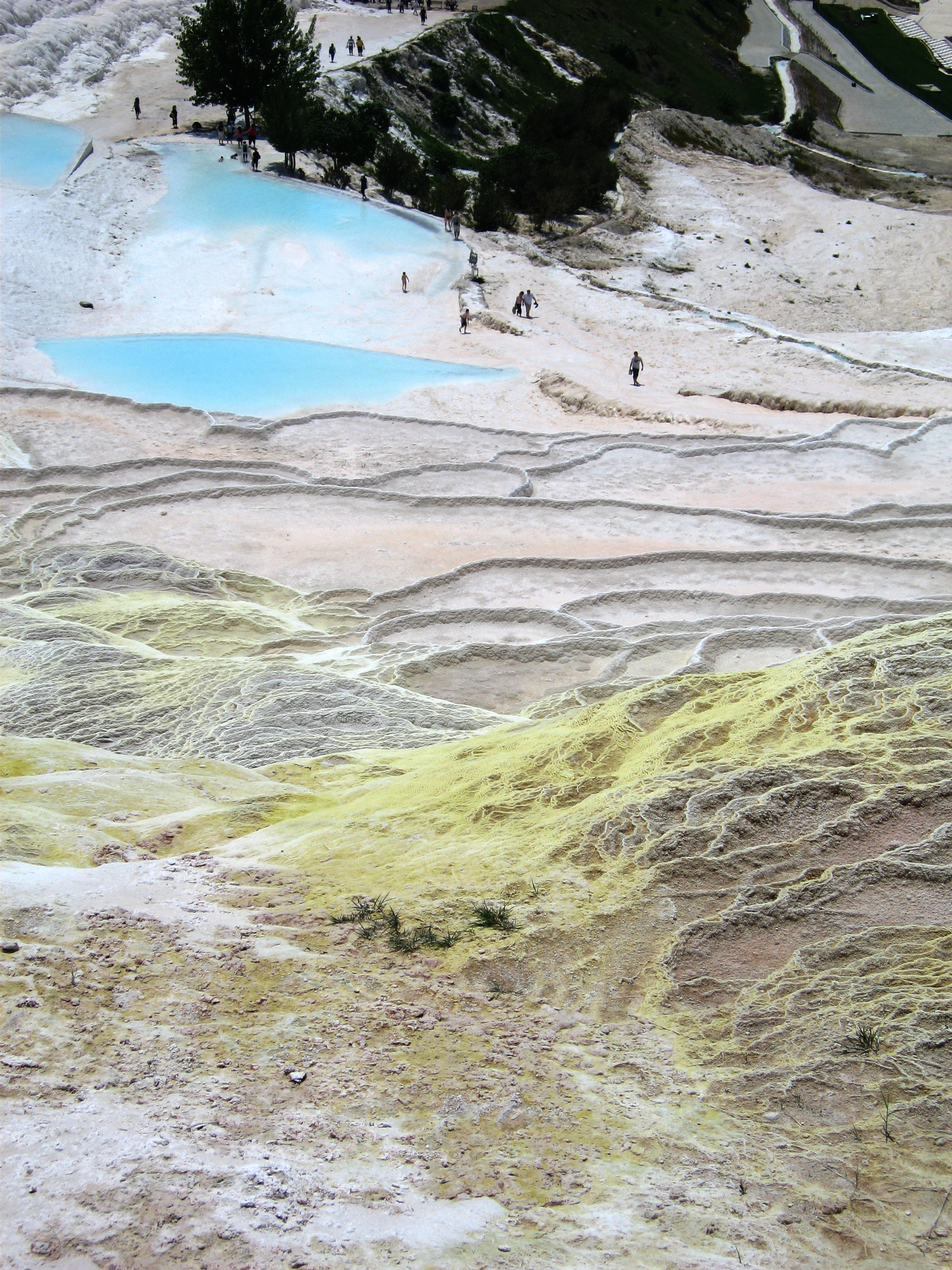 Travertine hot spring formations at Pamukkale, Hieropolis, Turkey